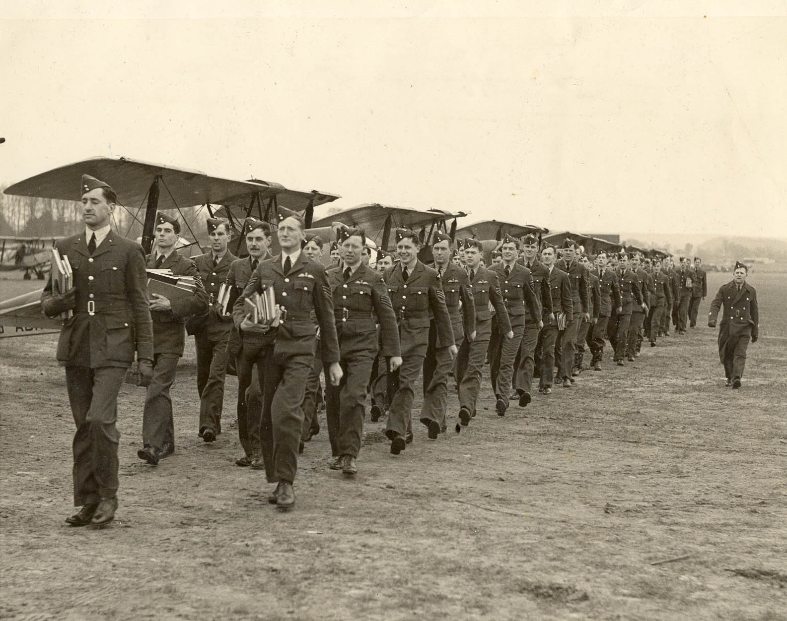 Peter Stanley James graduates - Sywell 1938